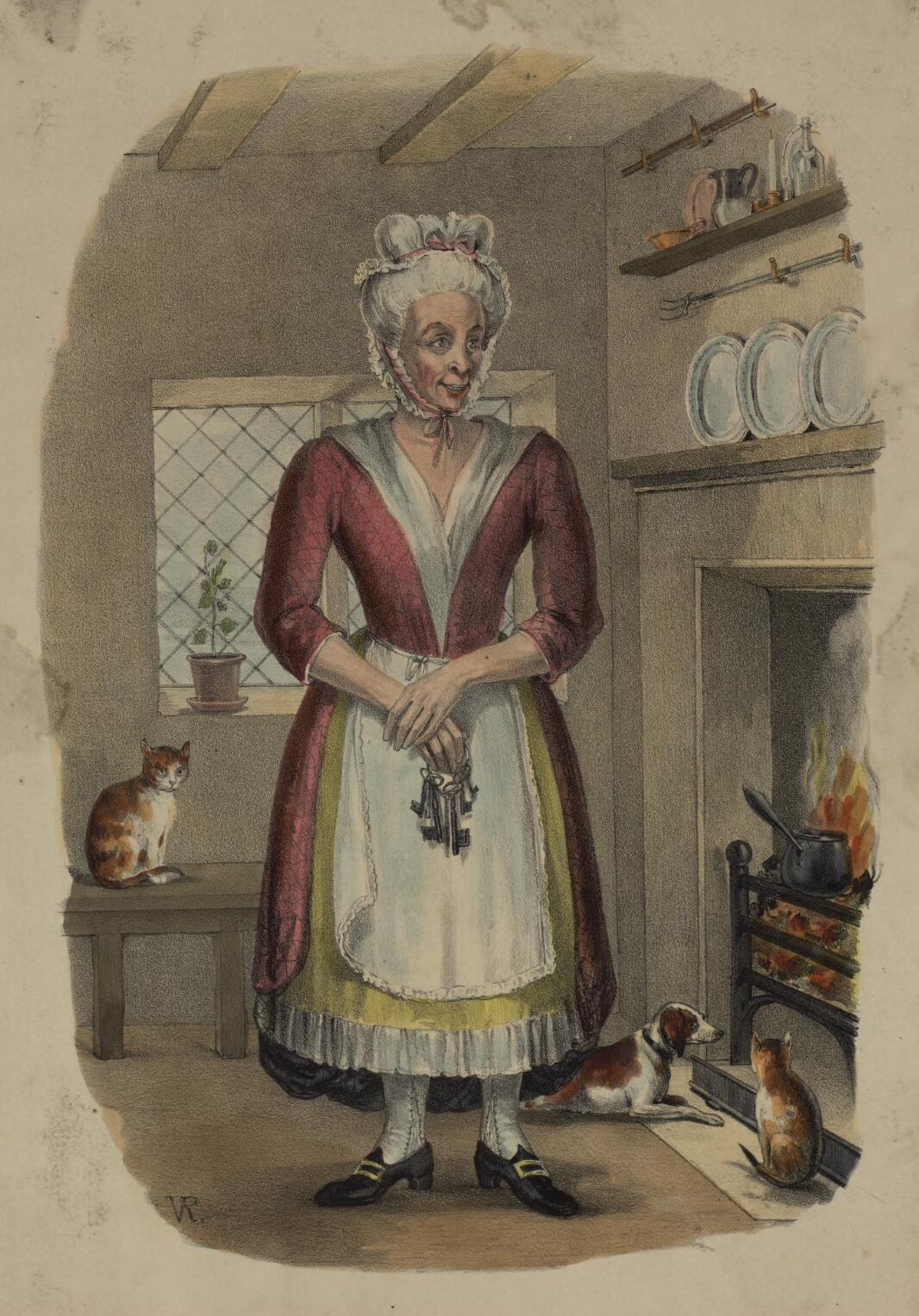 A portrait from the Welsh Portrait Collection at the National Library of Wales. Depicted person: Mary Carryl – Carryl, Mary (d. 1809), servant and friend of the Ladies of Llangollen